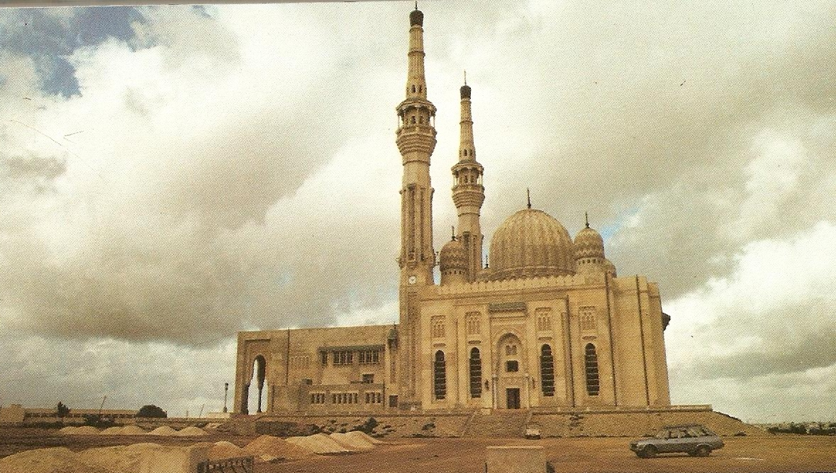 Abu Bakr as-Saddiq mosque, Al Marj